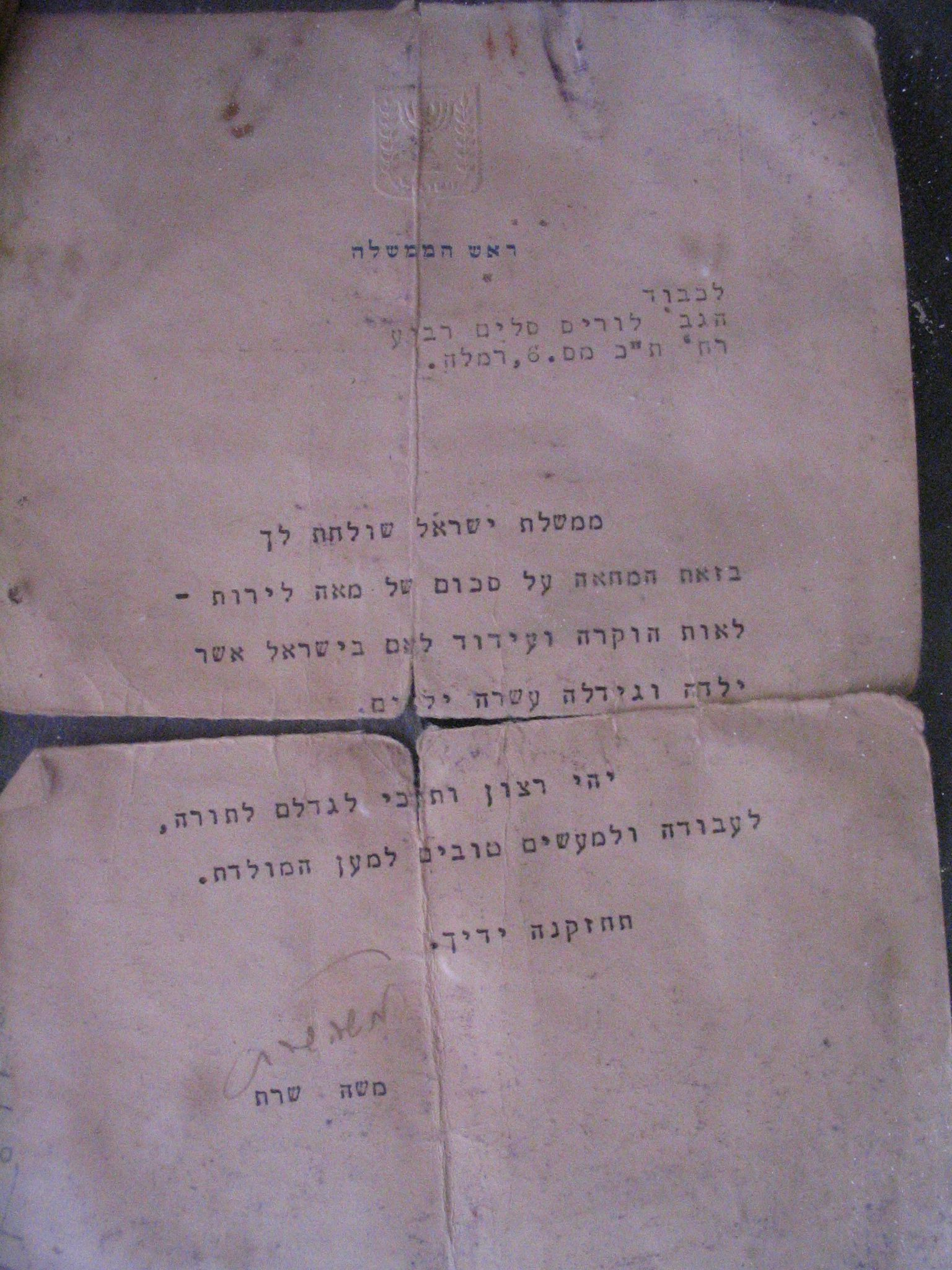 A letter to an Arab woman in Israel congratulating her on her 10 children. Circa 1955